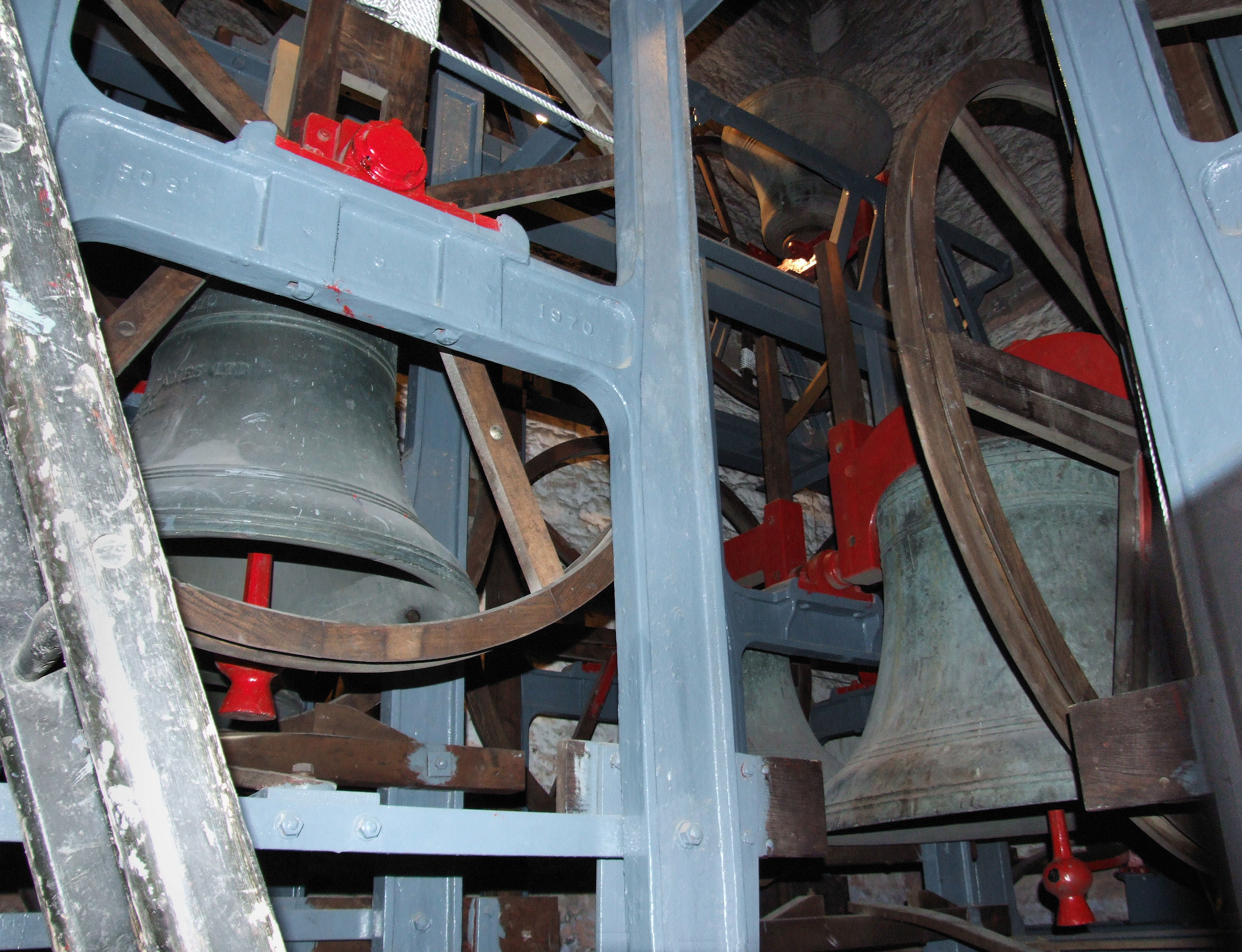 Some of the 12 bells in the tower of St Stephen's parish church, Bristol, England